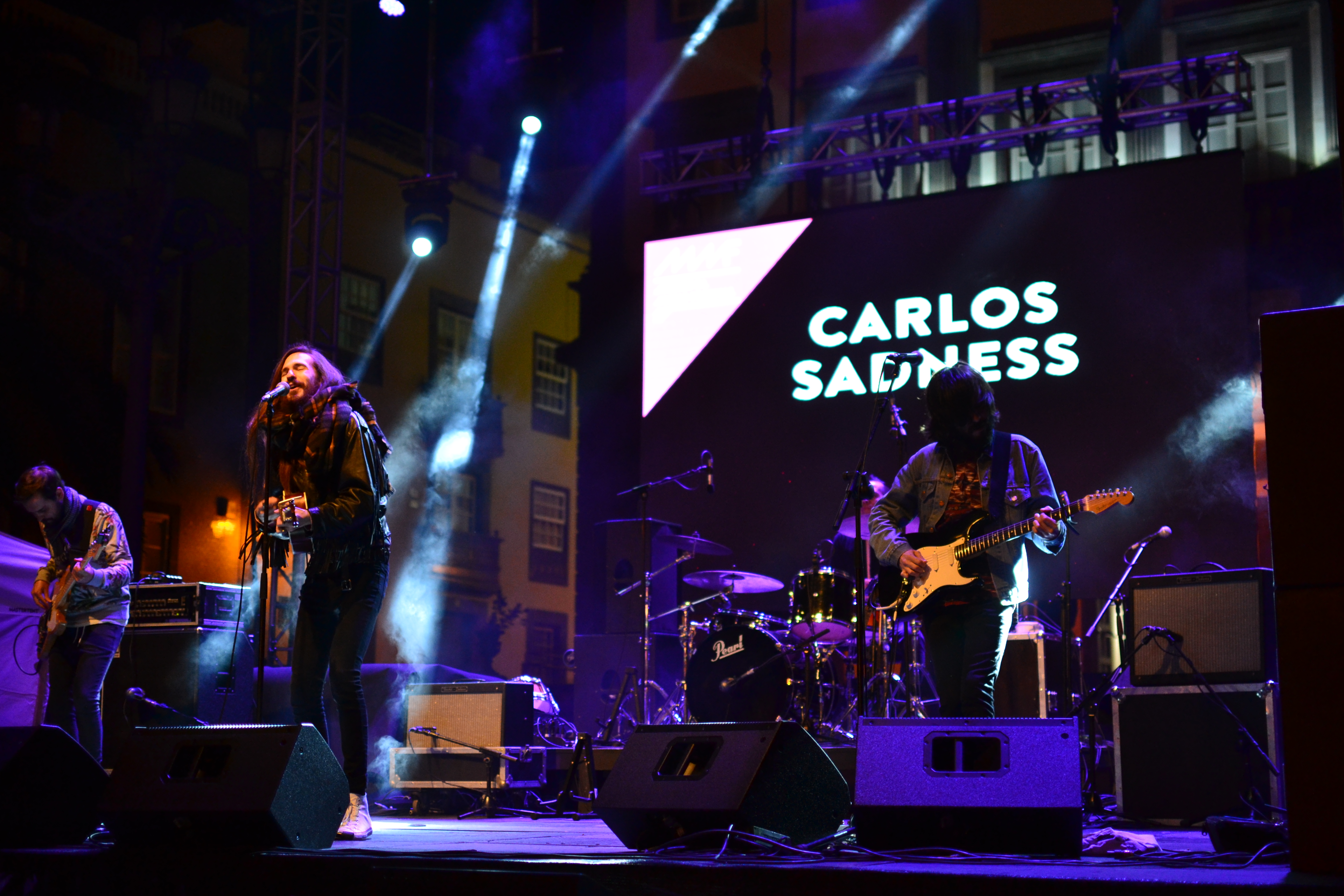 Carlos Sadness in concert at Monopol Music Festival in 2017